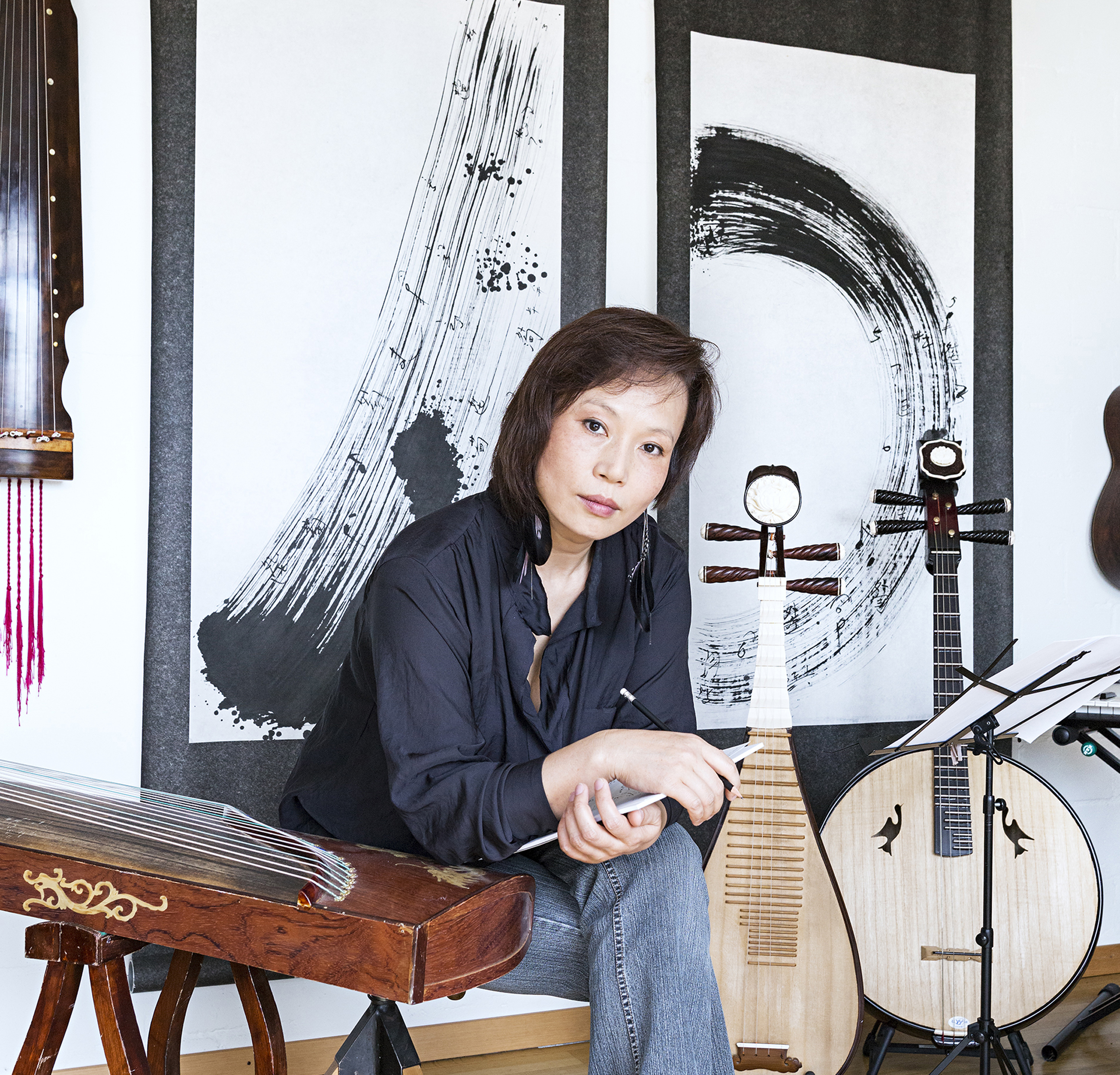 Composer YANG Jing by S. Keller